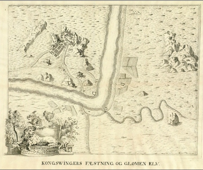 From Christian VI's journey to Norway in 1733. Kongsvinger Fortress. Engraving